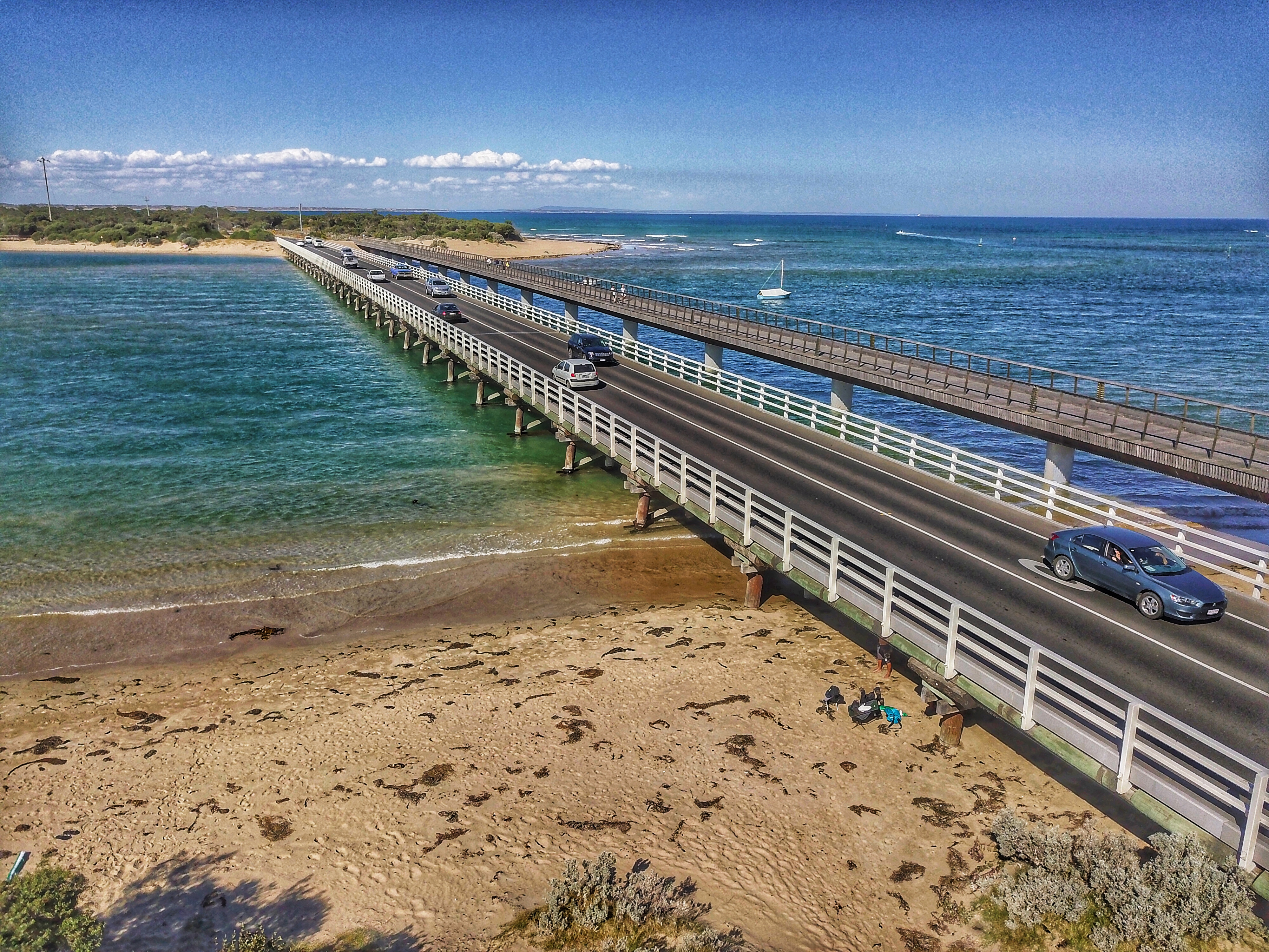 Aerial perspective of the Barwon river discharging into the Bass Strait